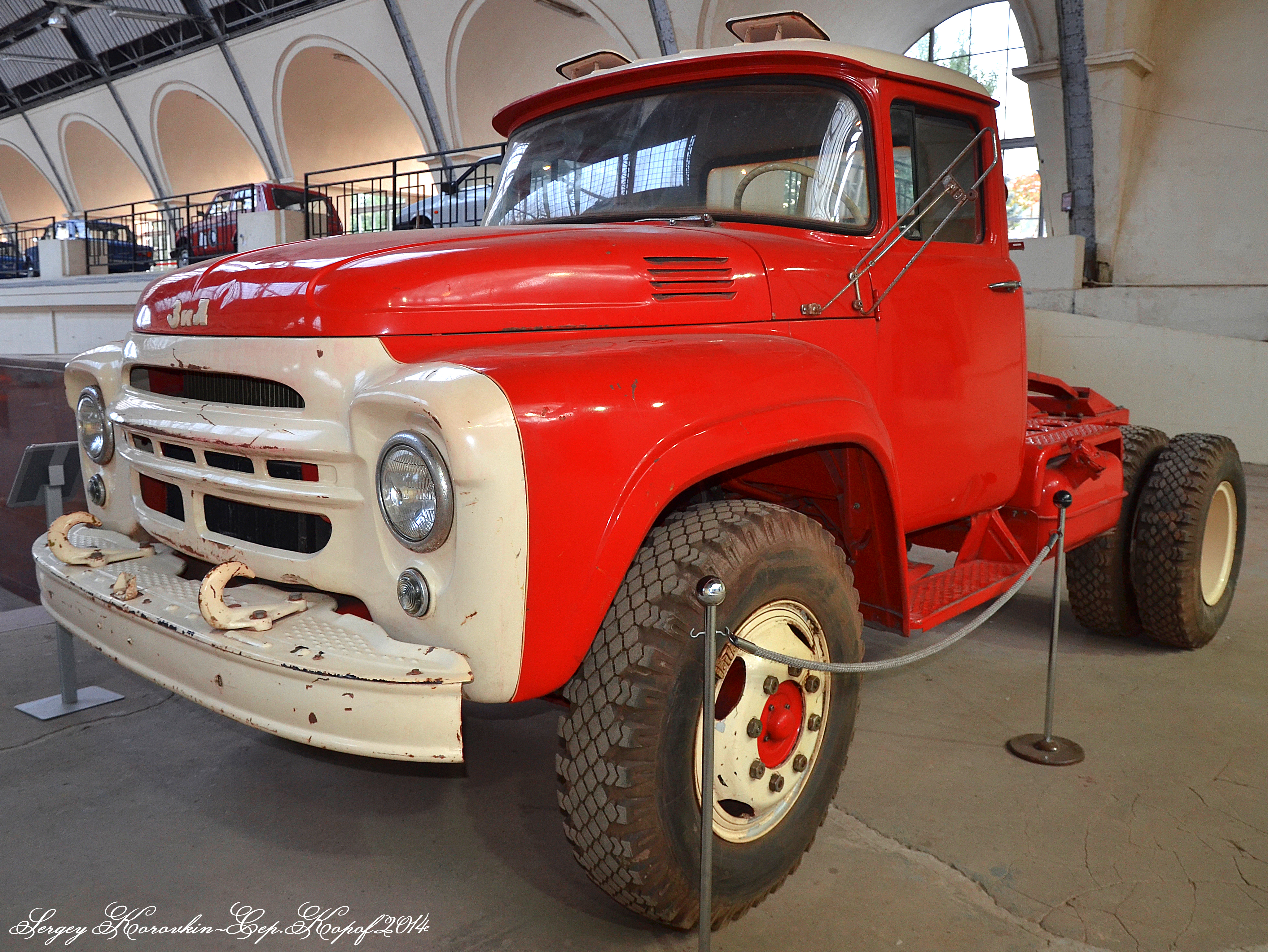 soviet ZIL-130 truck.